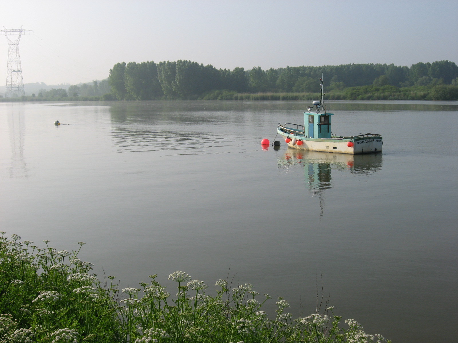 River Loire at Basse-Indre (near Nantes - France) fr: La Loire depuis Basse-Indre.